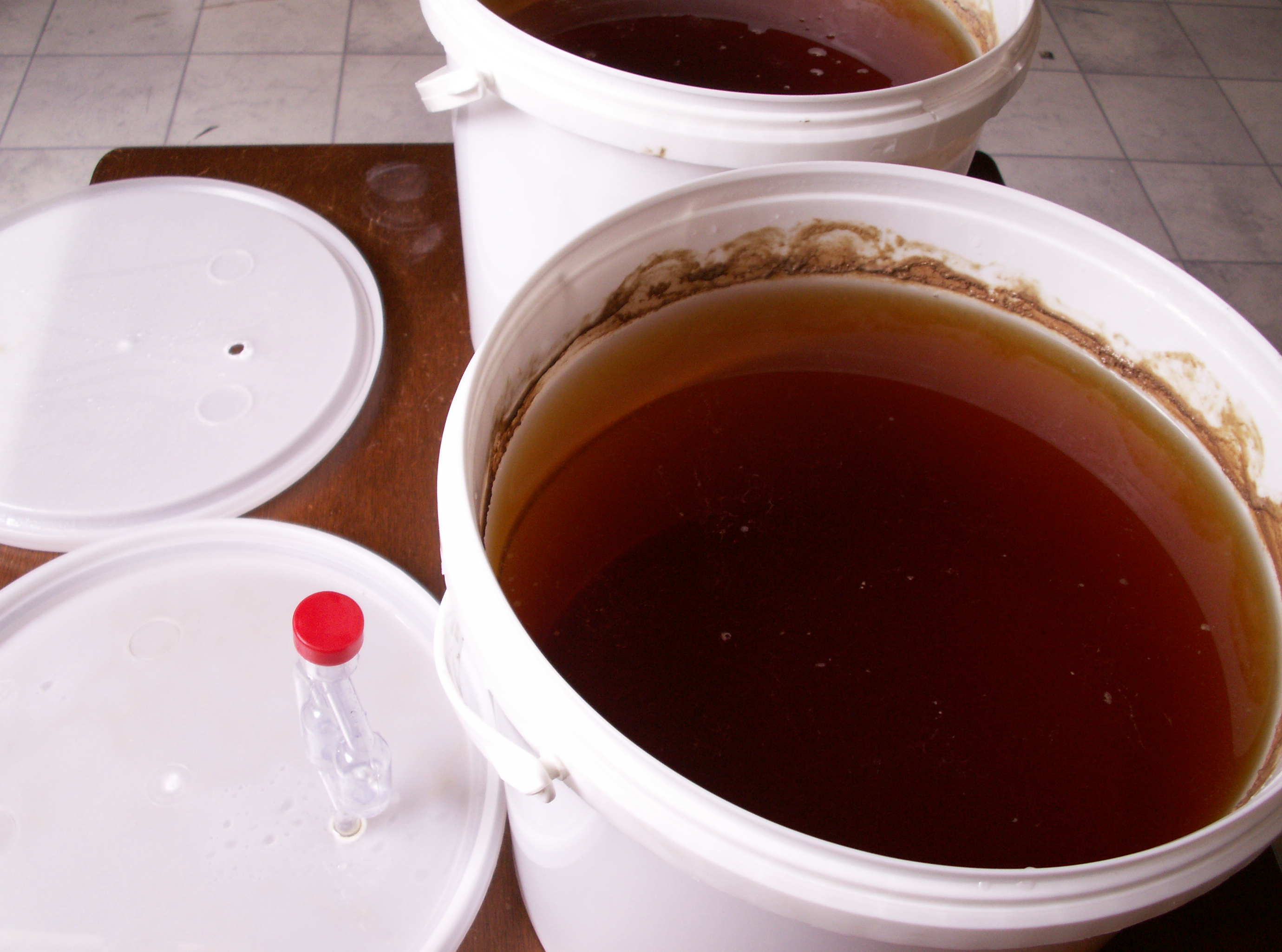 2 sealable plastic buckets with beer after their first fermentation.